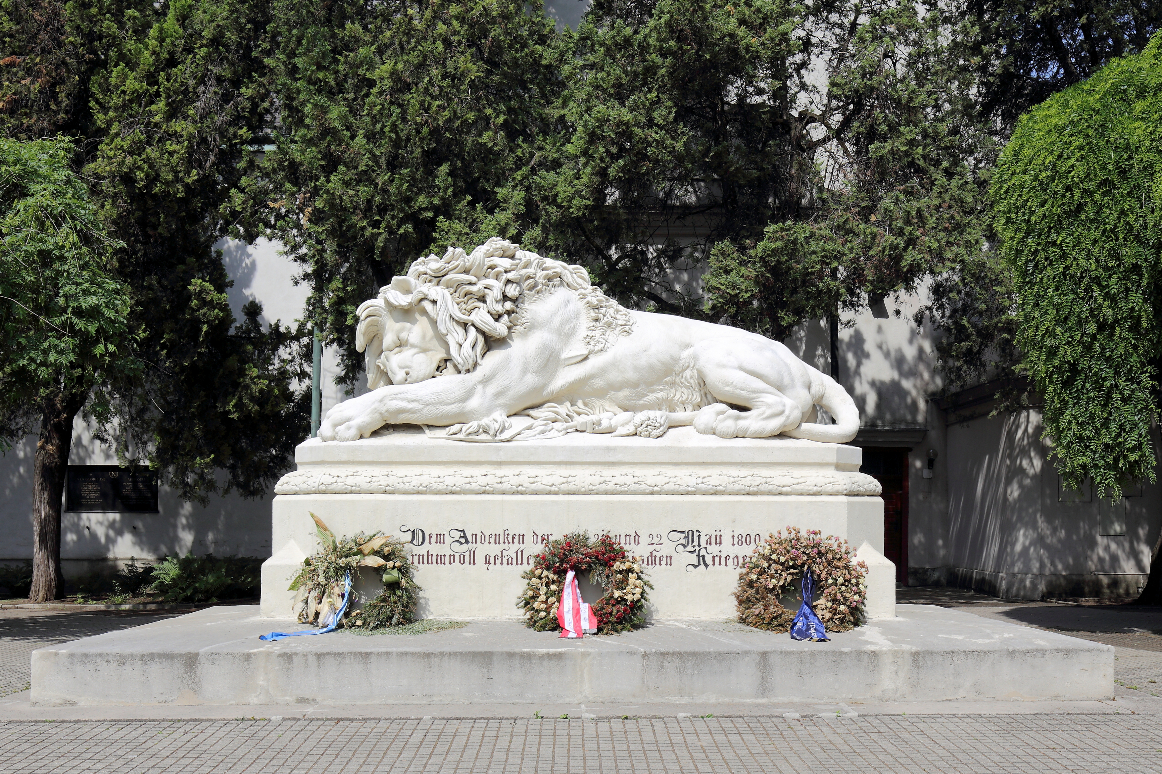 The Lion of Aspern (Löwe von Aspern) is a monument made of sandstone commemorating the Battle of Aspern-Essling. Created by Anton Dominik Fernkorn and erected in 1858, it shows a dying lion under whose left shoulder blade the tip of the sword which has pierced him can be seen. The lion symbolizes the many dead among Austrian soldiers and civilians despite the fact that Austria had won the battle. The inscription reads: Dem Andenken der am 21. und 22. Mai 1809 ruhmvoll gefallenen österreichischen Krieger (To the memory of the Austrian warriors who honourably died in battle on May 21 and 22, 1809).